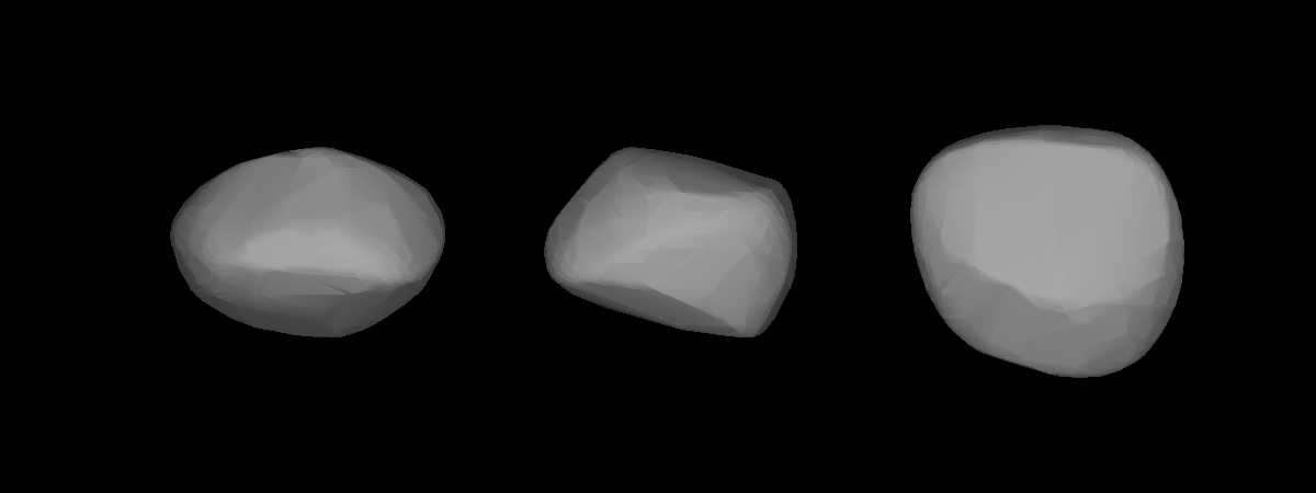 A three-dimensional model of 690 Wratislavia that was computed using light curve inversion techniques.